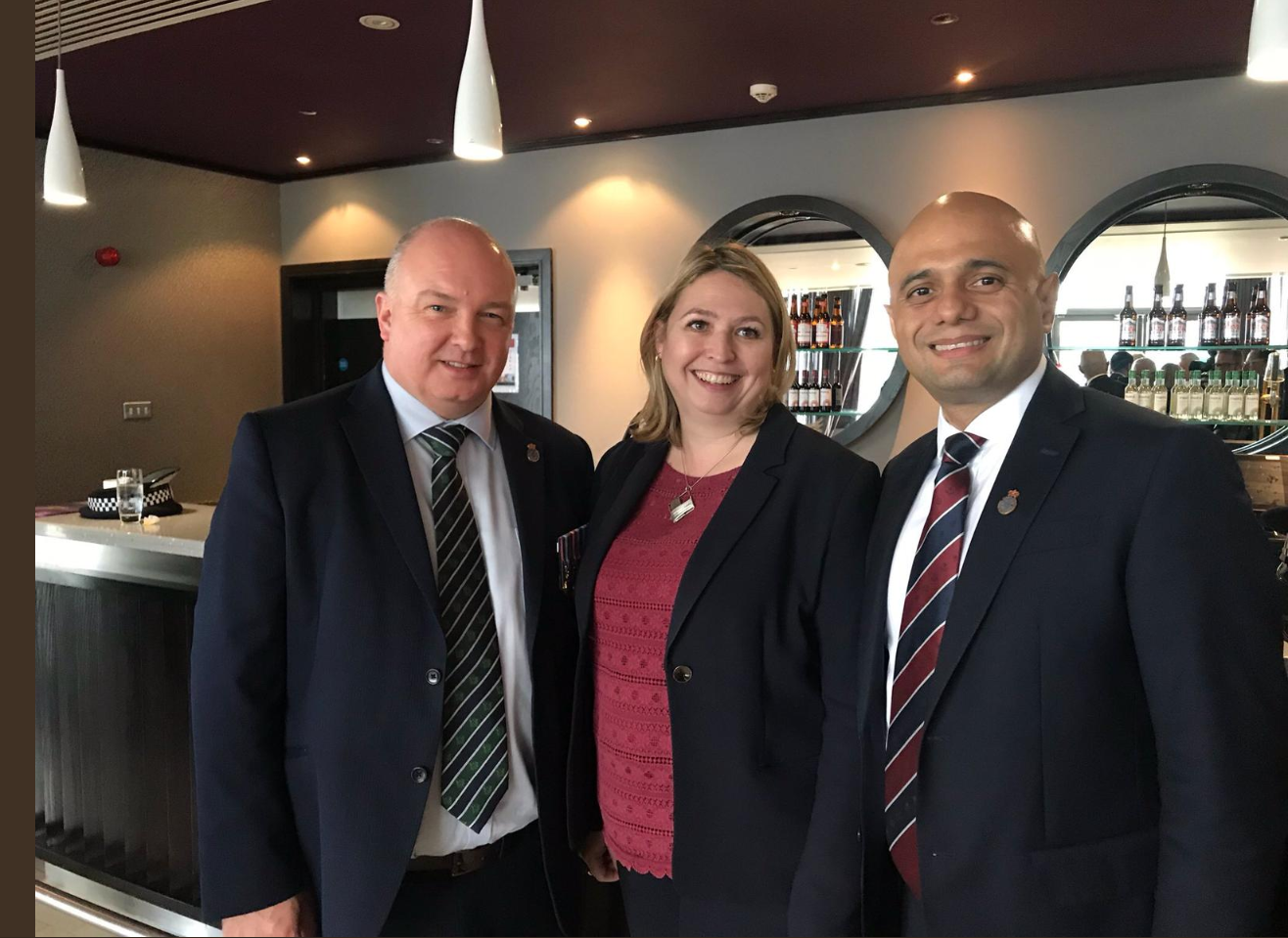 Secretary of State Karen Bradley was honoured to attend National Police Memorial Day with the UK Home Office's Sajid Javid recognising our courageous & dedicated police officers.